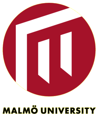 Former logo of Malmö University in English